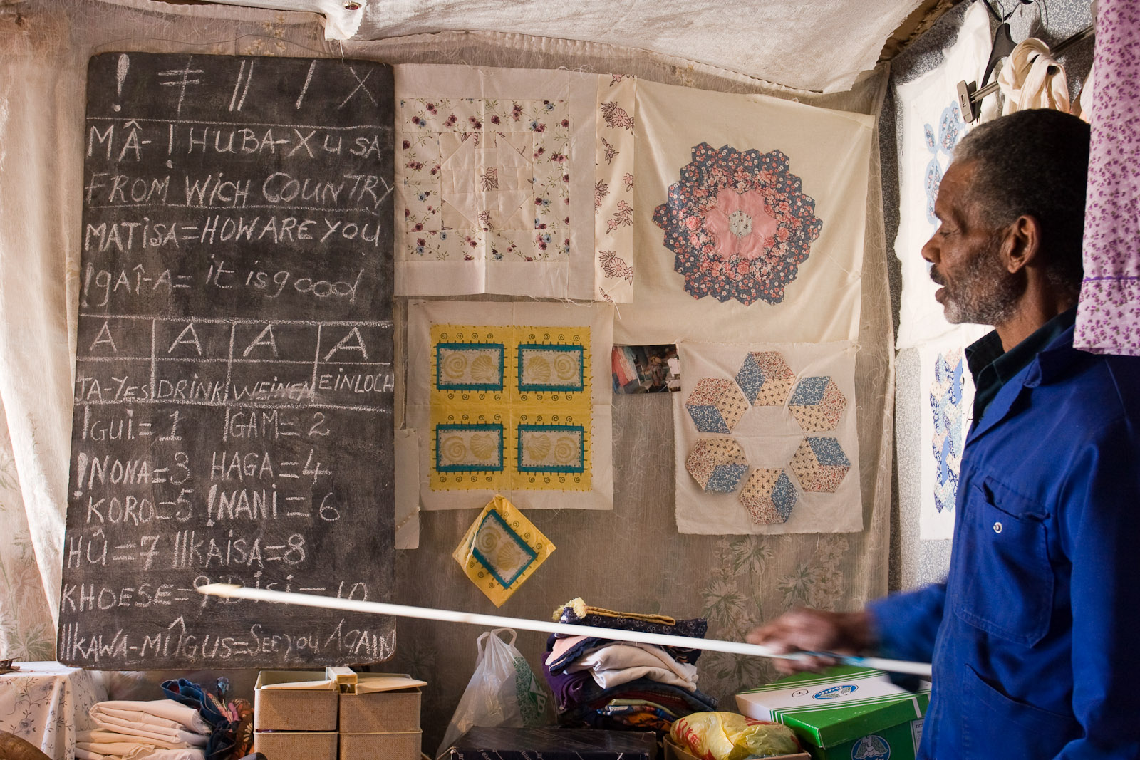 Nama man giving us a lesson in the click language